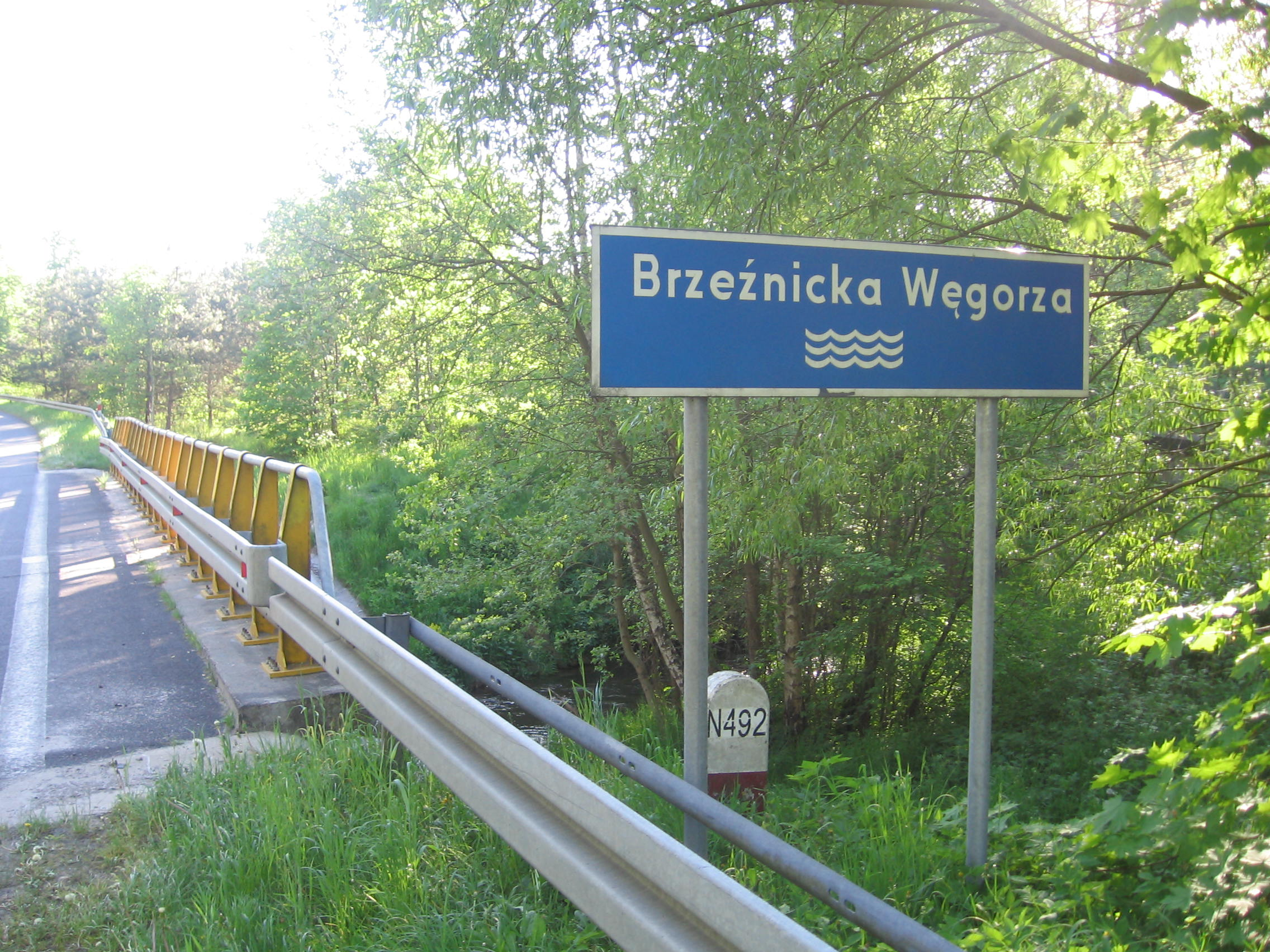 Bridge over Brzeźnicka Węgorza and polish road sign (river name sign znak F-4).